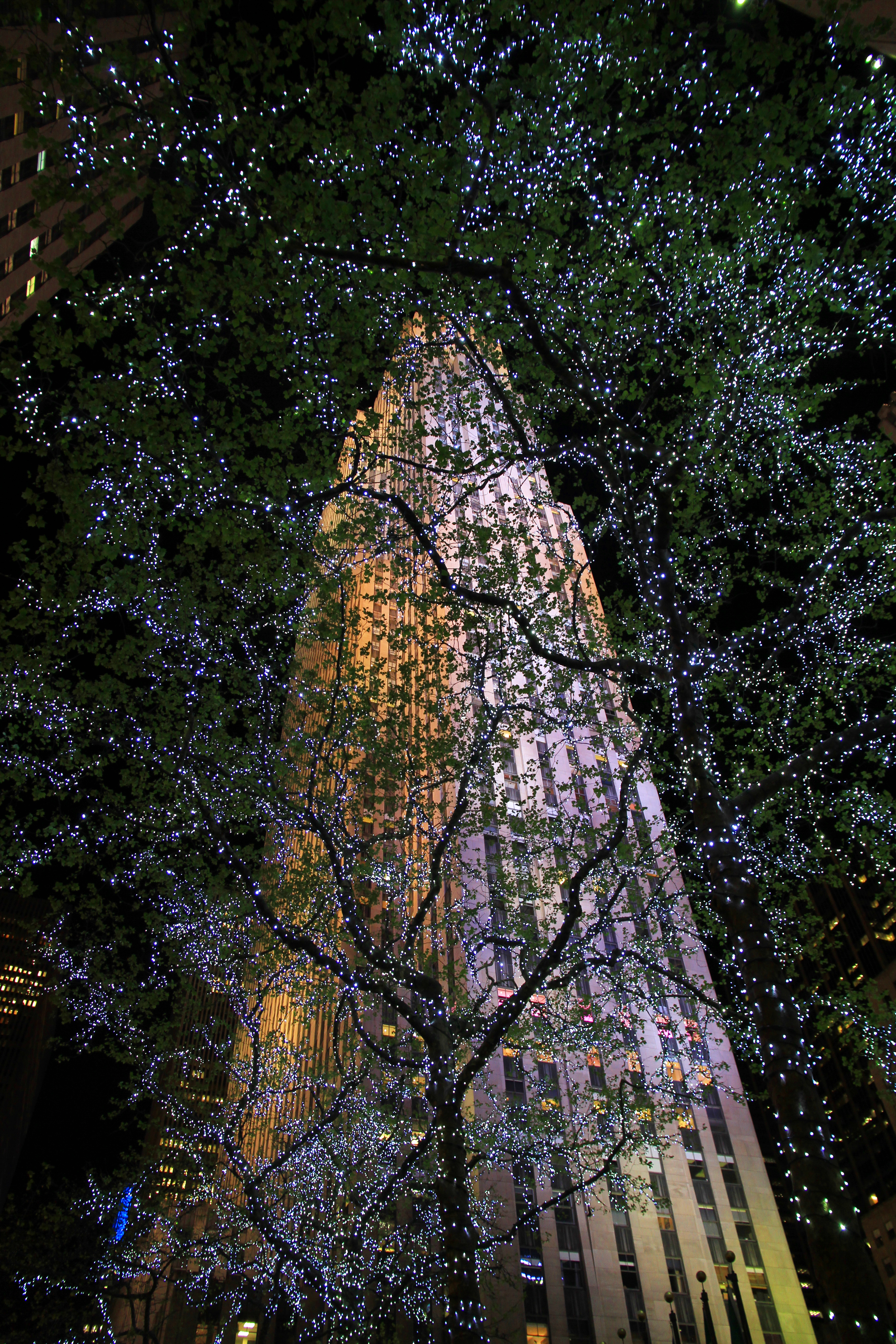 GE Building